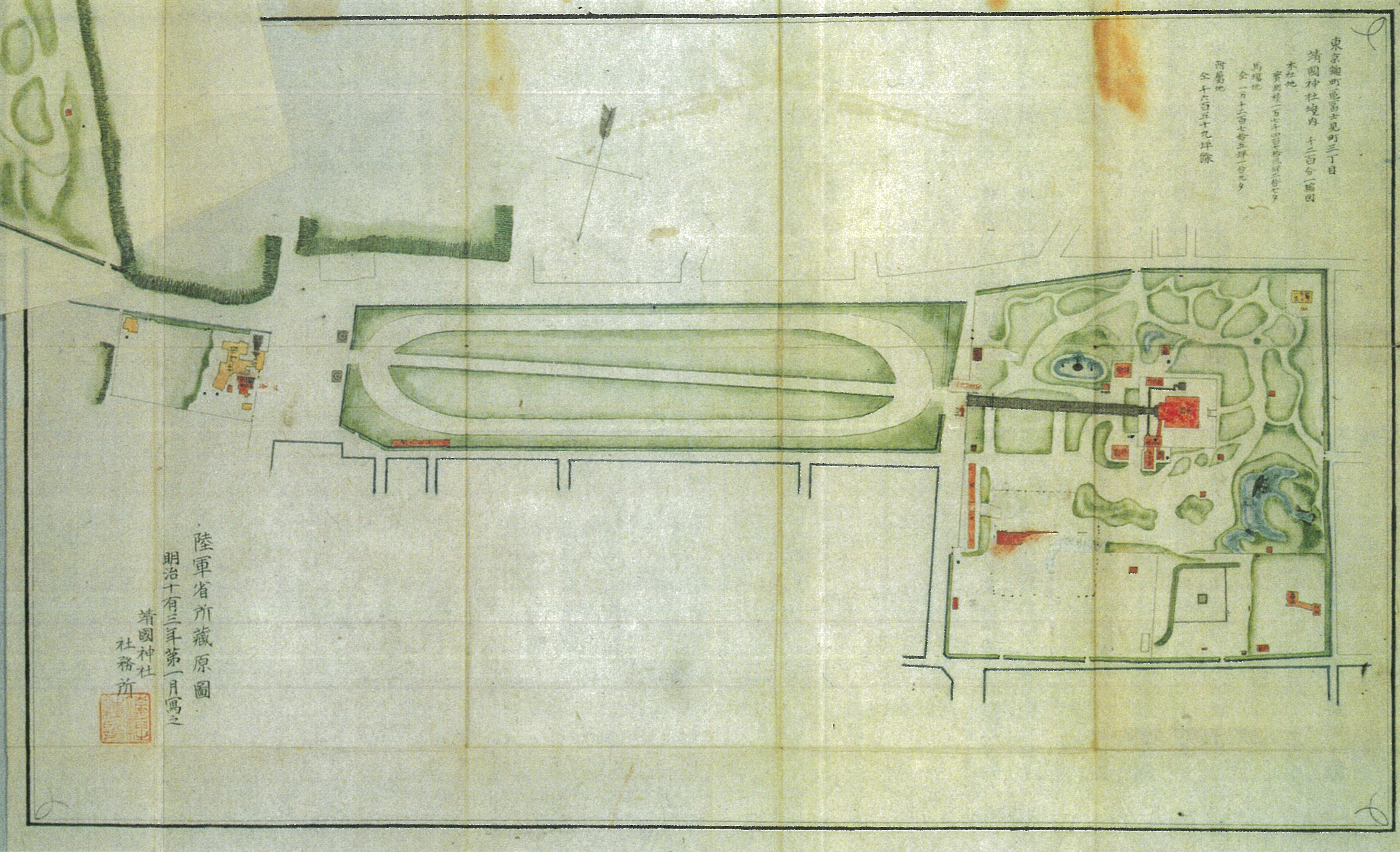 Yasukuni Shrine map (Before 1880)